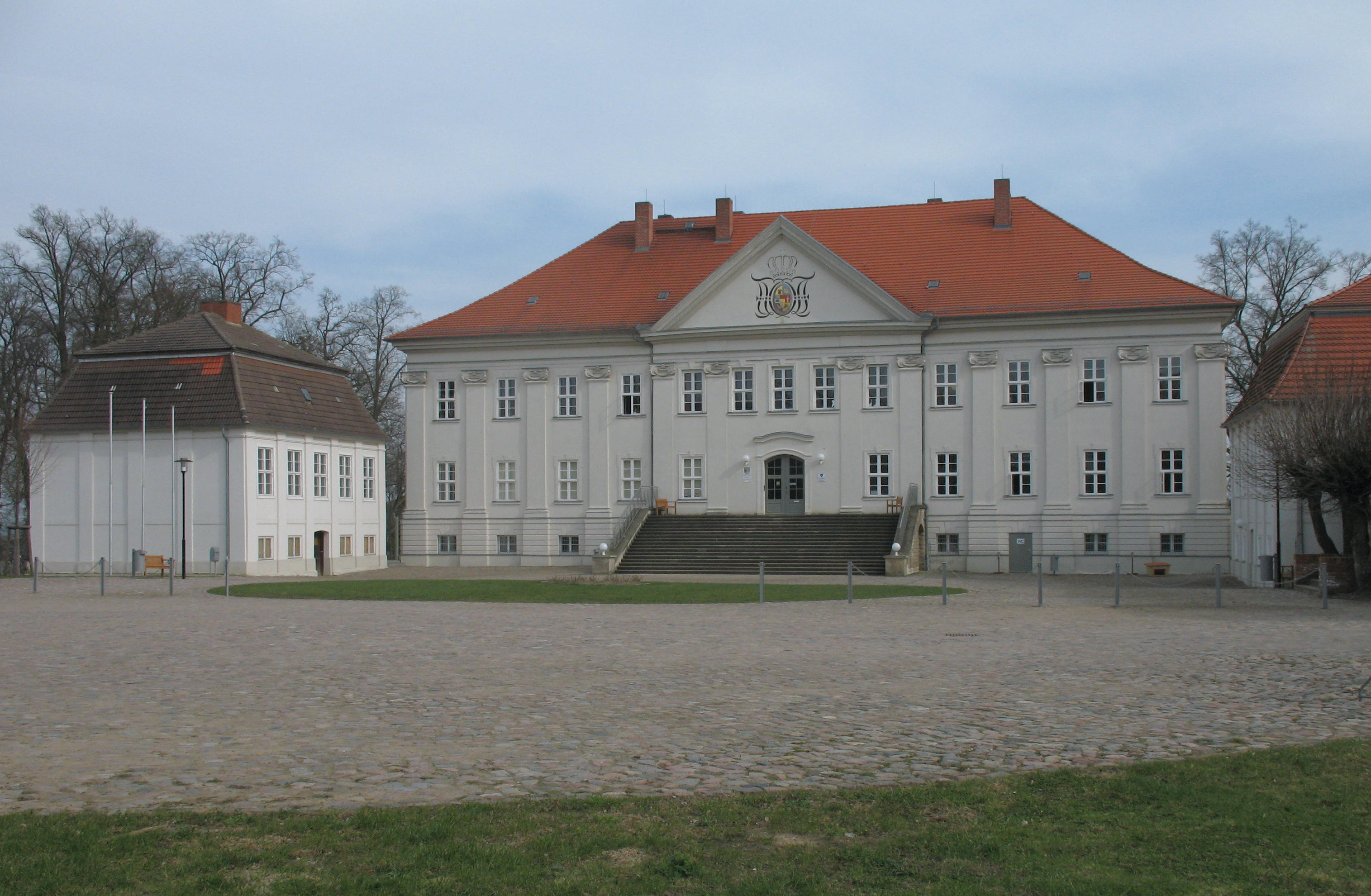 Former royal palace (dukes of Mecklenburg-Strelitz) in Hohenzieritz in Mecklenburg-Western Pomerania, Germany